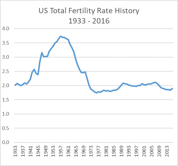 A chart showing history of US Total Fertility Rate from 1933 to 2016.